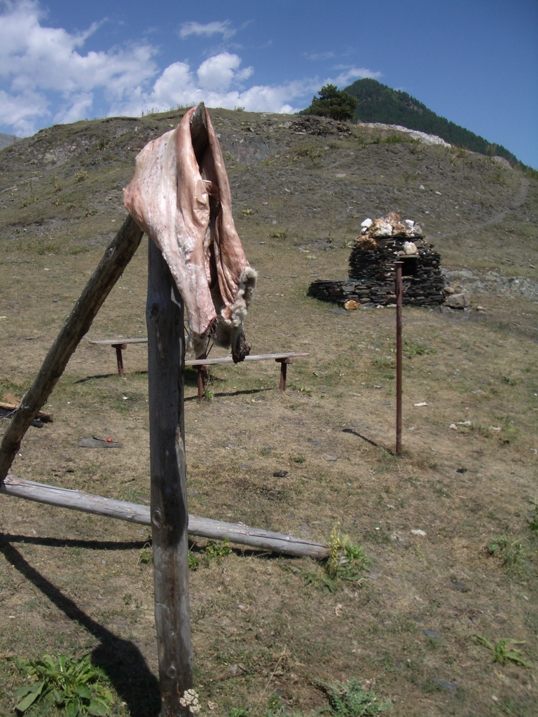 Still in use